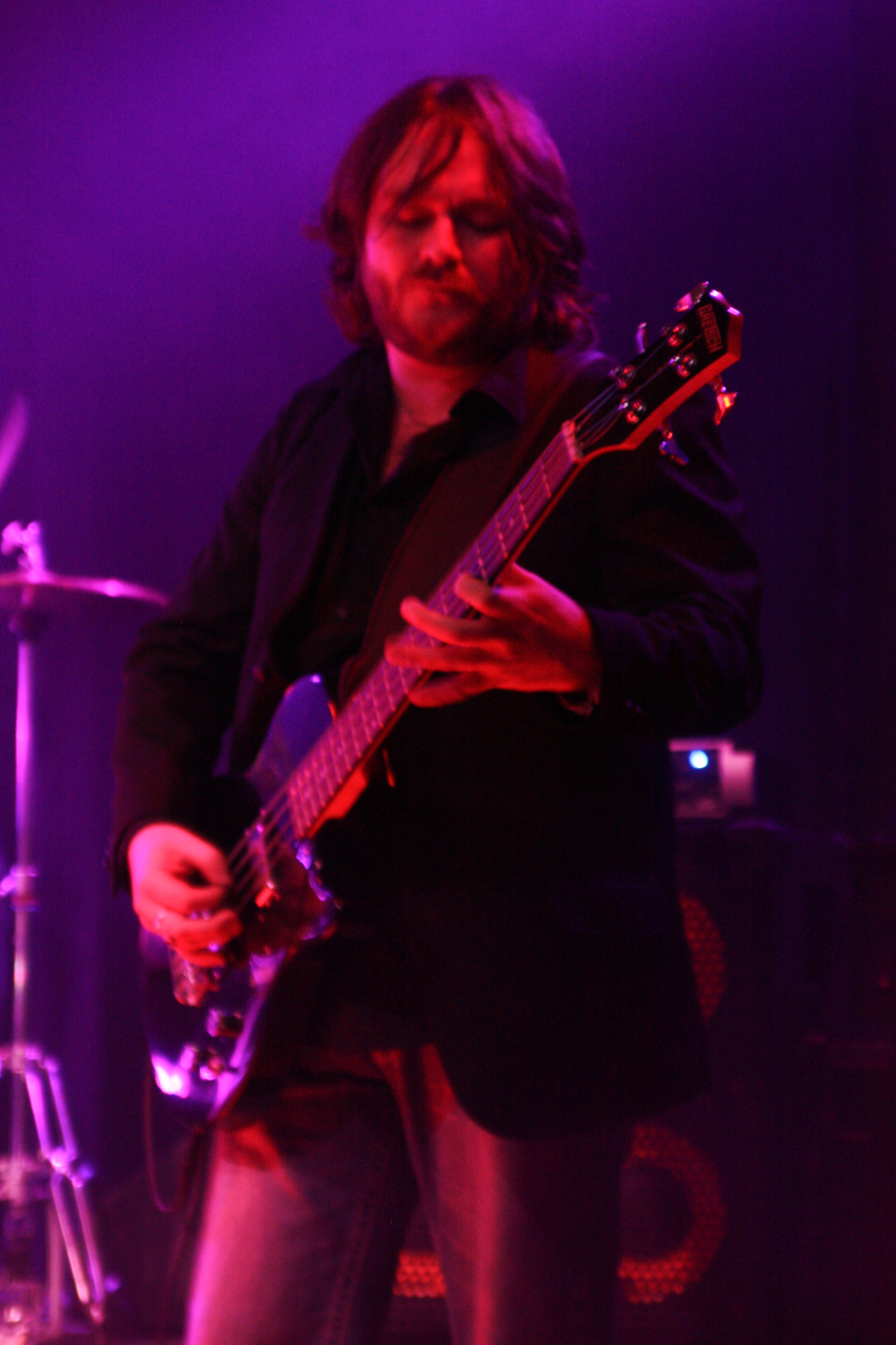 Duncan Patterson playing with Alternative 4 in 2011.